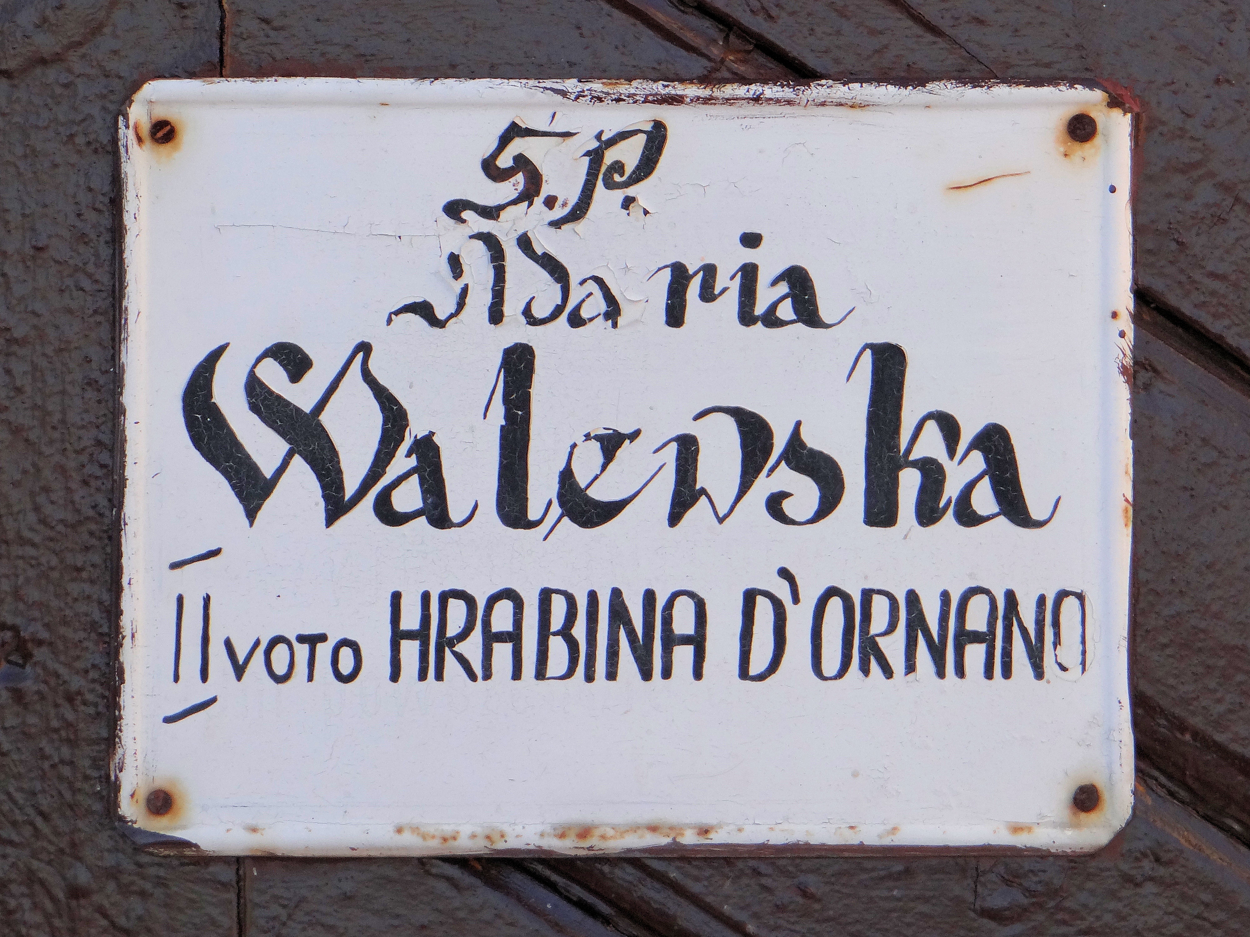 Plaque on the door to Crypt of Maria Walewska